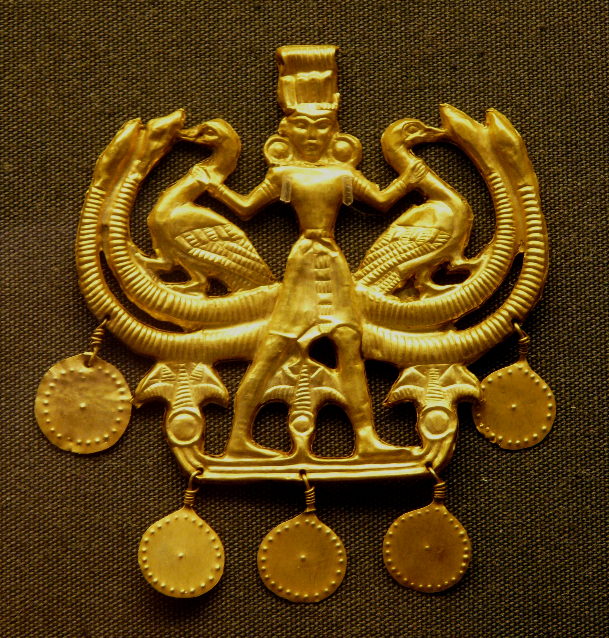 Part of the Aegina treasure. This golden pendant is called "Master of Animals". It is interpreted as showing an Cretan god in a field of lotus flowers. In each hand he holds a goose, while the background is composed of two unidentified objects that are considered to be either connected to "cult horns", the sacred horns of bulls, or maybe composite bows. British Museum Catalogue Jewellery #762. Description after Higgins: The Aegina Treasure, 1979 British Museum. GR 1892.5-20.8 BM Cat Jewelery 762.